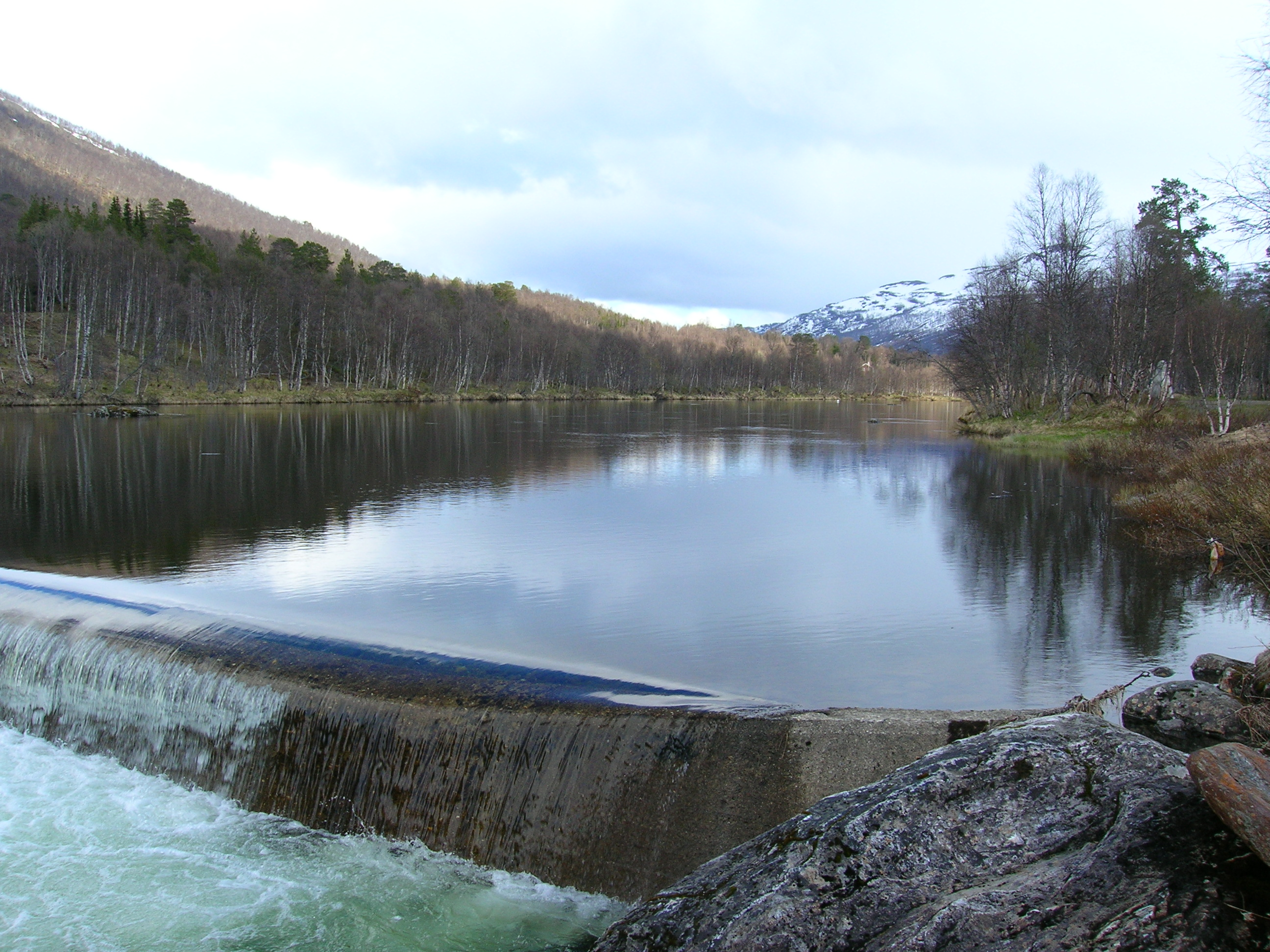 Part of the river Ranelva north of Storvoll, Dunderlandsdalen, Rana Municipalitiy, county of Nordland, Norway. Photo 27 May 2007 with a NIKON Coolpix 5600 5,1 Megapixel camera.